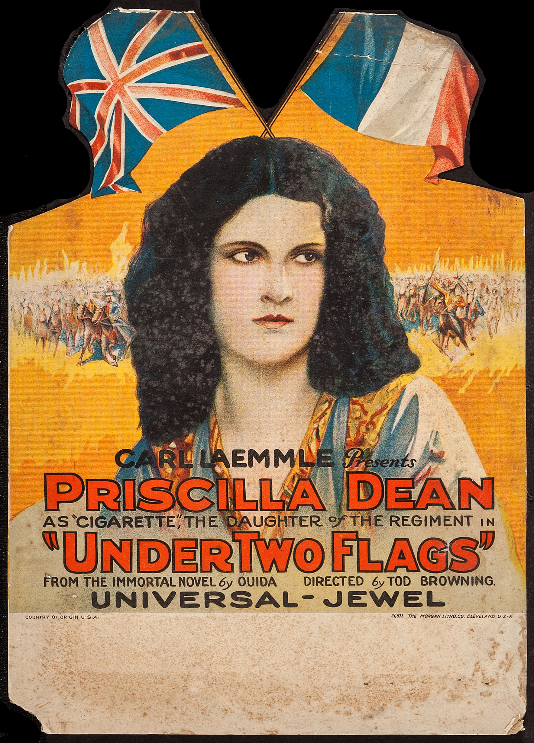 Under Two Flags is a 1922 American drama film directed by Tod Browning and starring Priscilla Dean. This is a contemporary poster for the film.